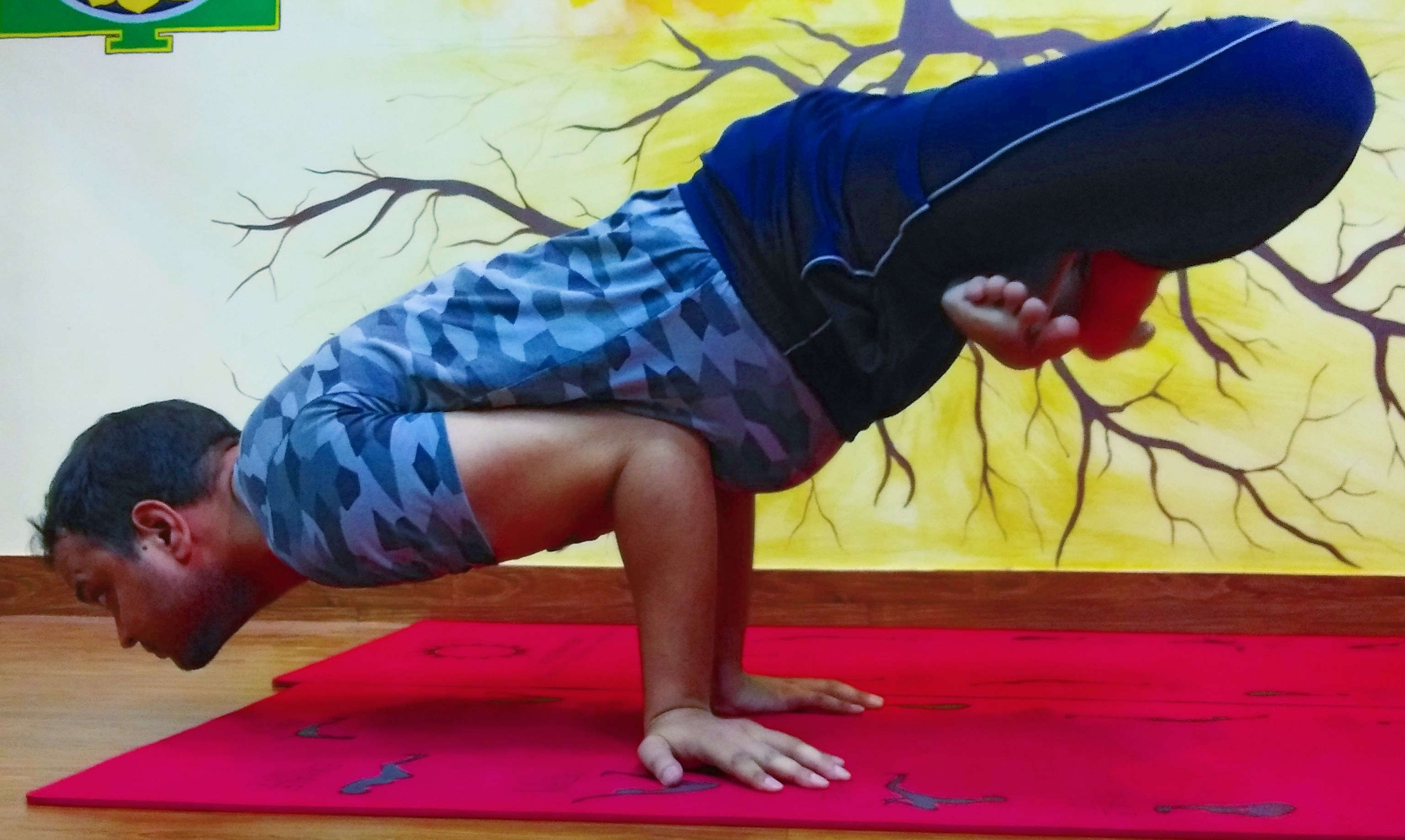 Padma Mayūrāsana Performing By Sadhak Anshit